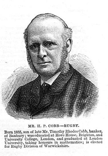 Old Print Illustrated London News